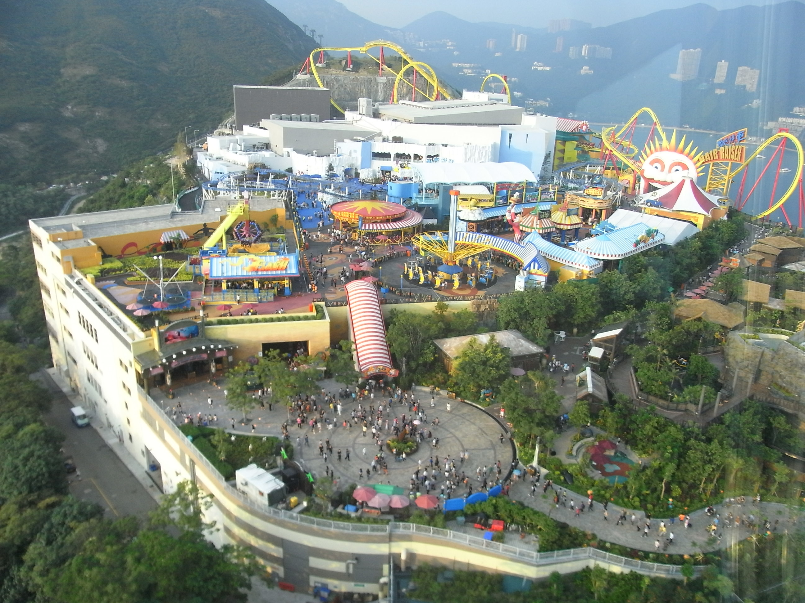 香港海洋公園, The Ocean Park, Hong Kong